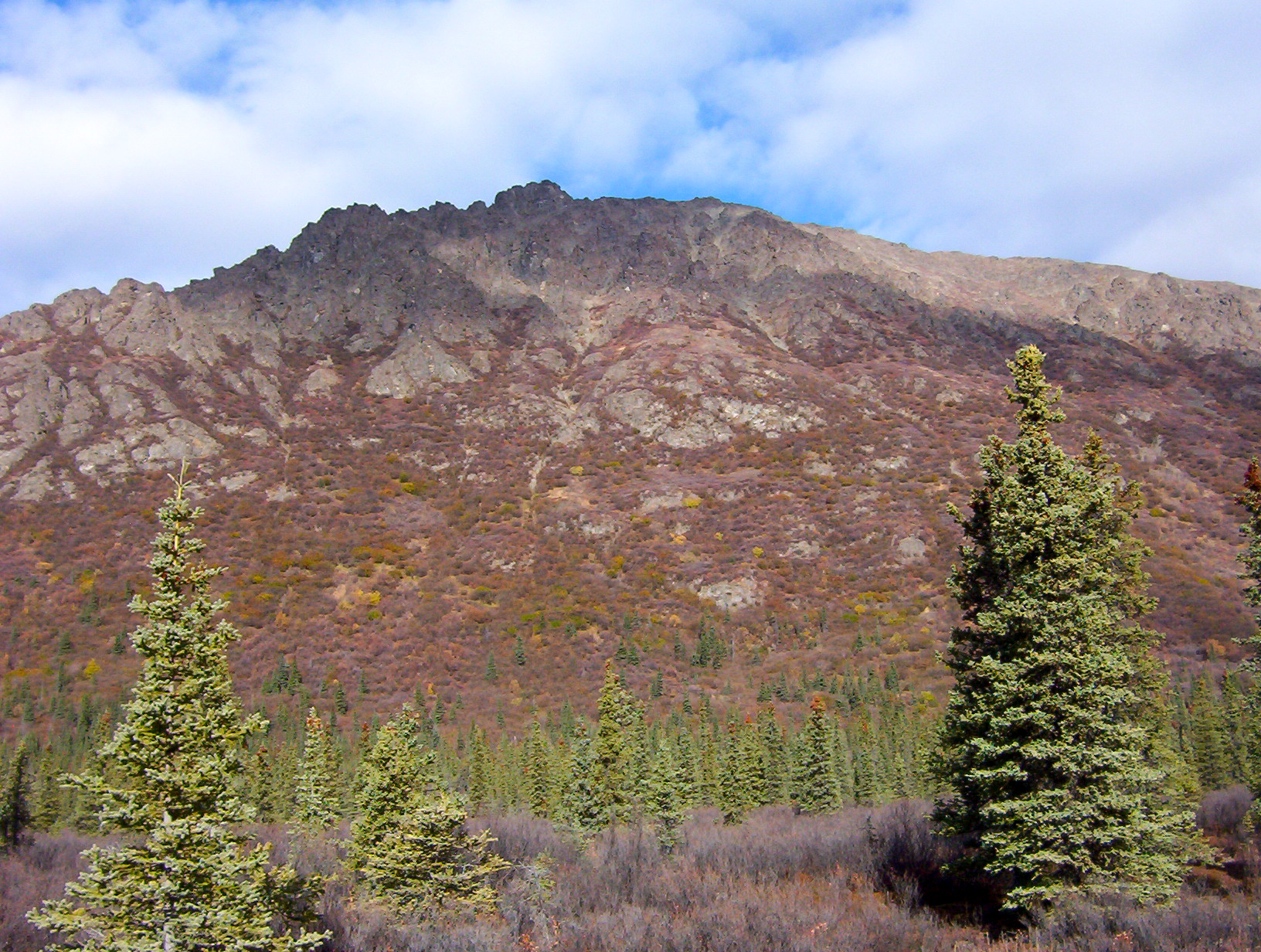 craggy peak of the Alaska Range along the upper Susitna Valley, seen from the Denali Highway